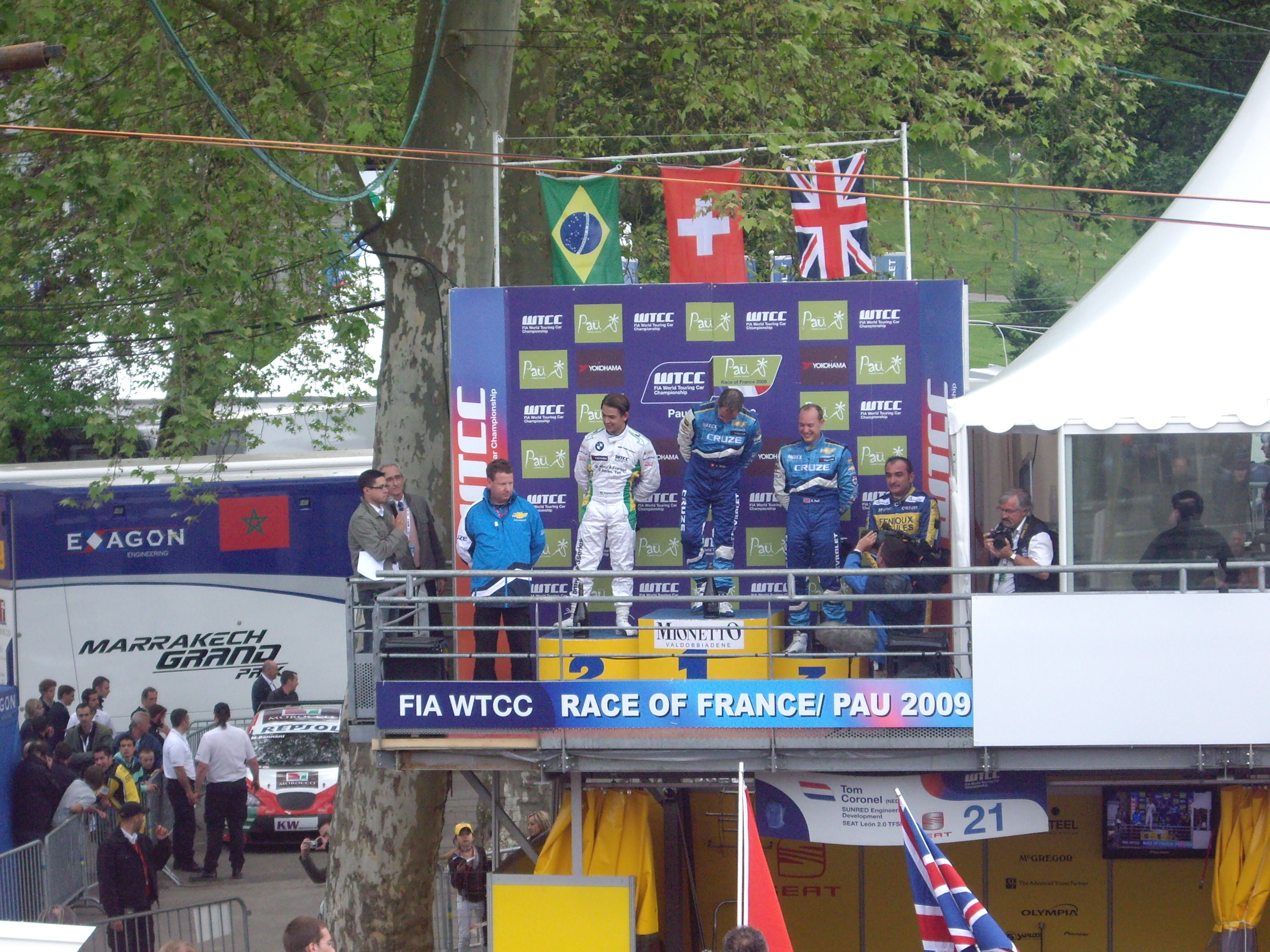 Podium of 2009 FIA WTCC Race of France motor race in Pau.